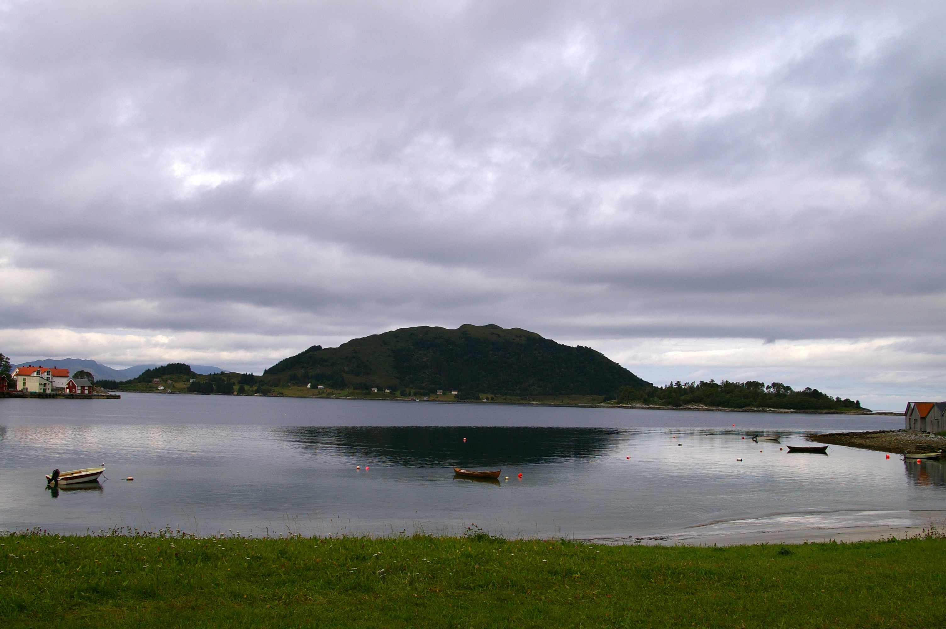 Selja Island in Selje, Sogn og Fjordane, Norway.